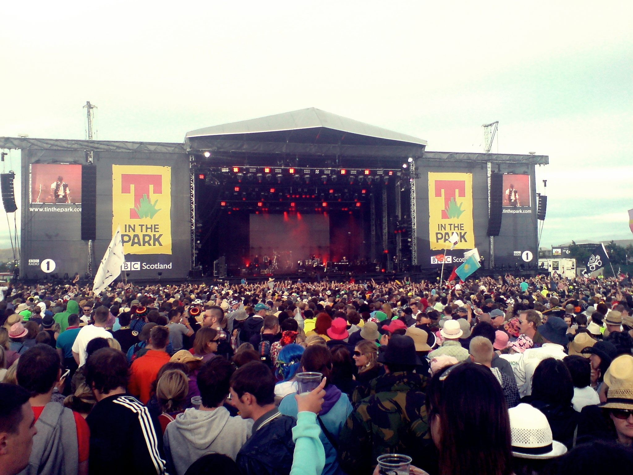 Main Stage of the annual T in the Park Festival.